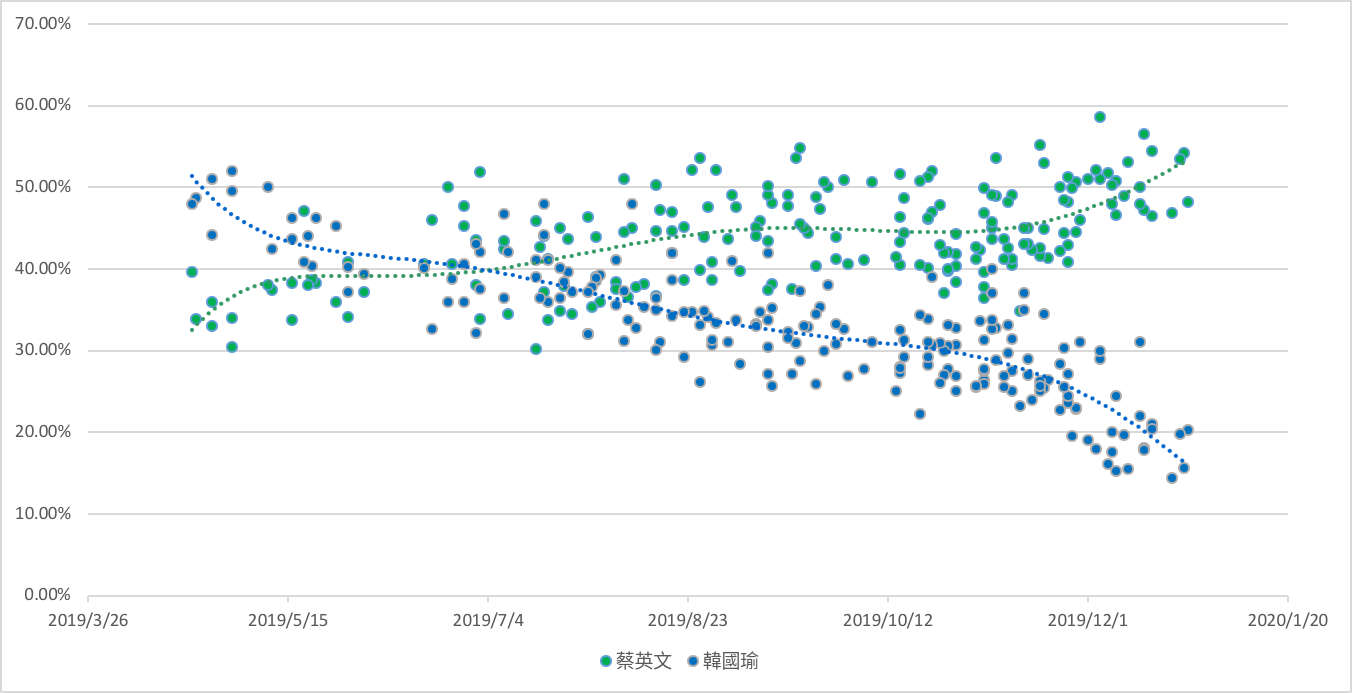 Polling trendlines of the 2020 Taiwanese presidential election prior to the inauguration of James Soong's campaign.